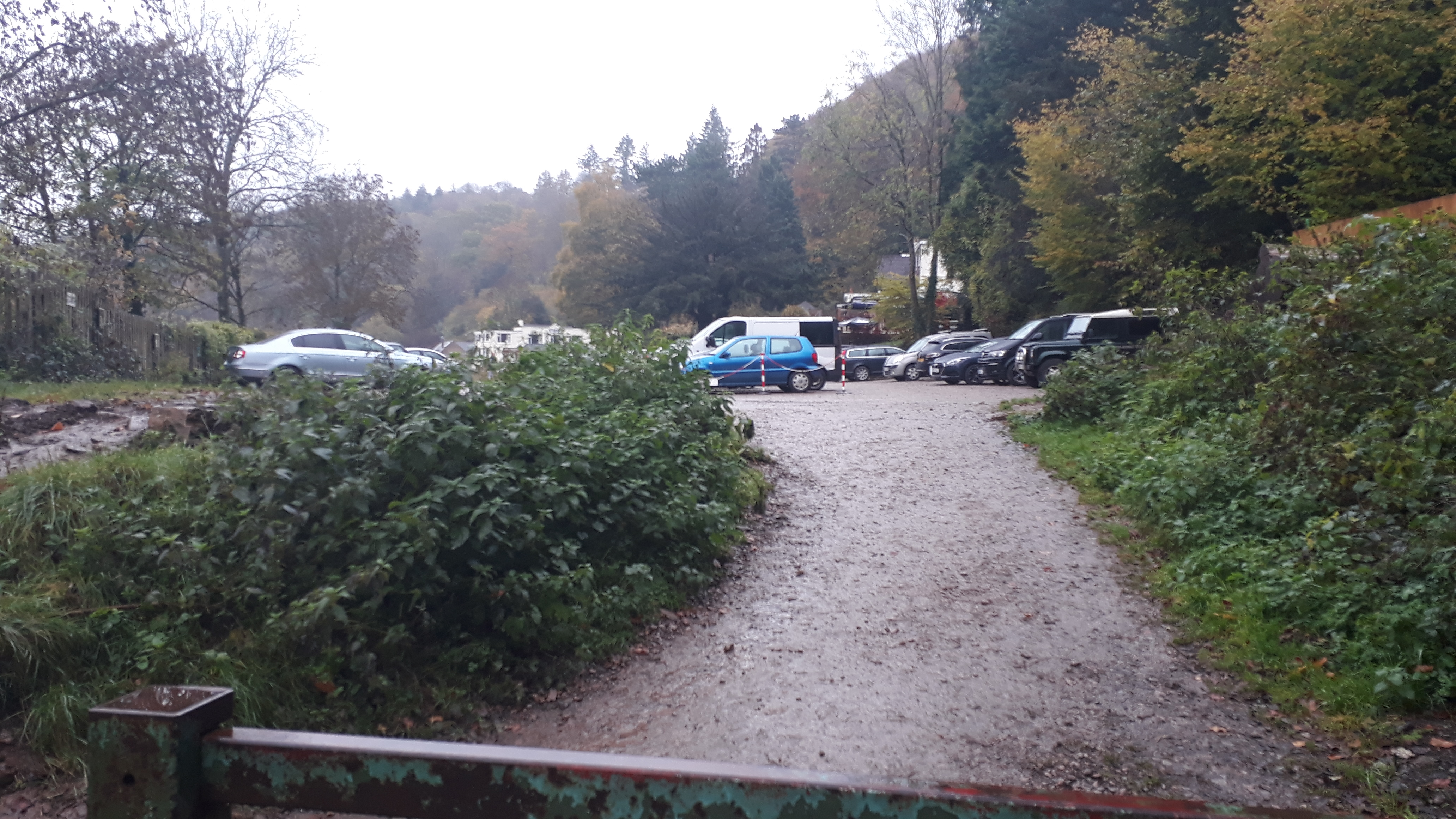 Symonds Yat station site in 2018.